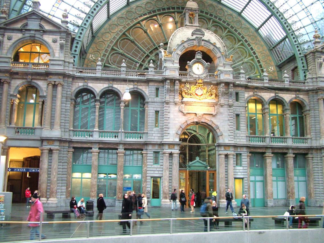 Antwerpen (Belgium), view from the trains to the old part of the Central Station